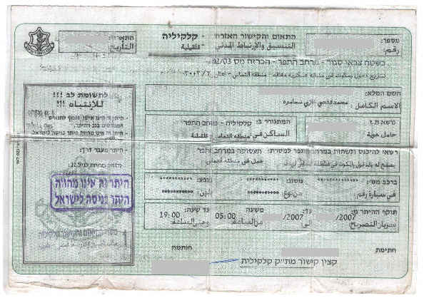 A permit issued by the Israeli Defense Forces, allowing a Palestinian living in the Seam Zone, near Qalqilya, to reside and work in this area which is normally restricted.